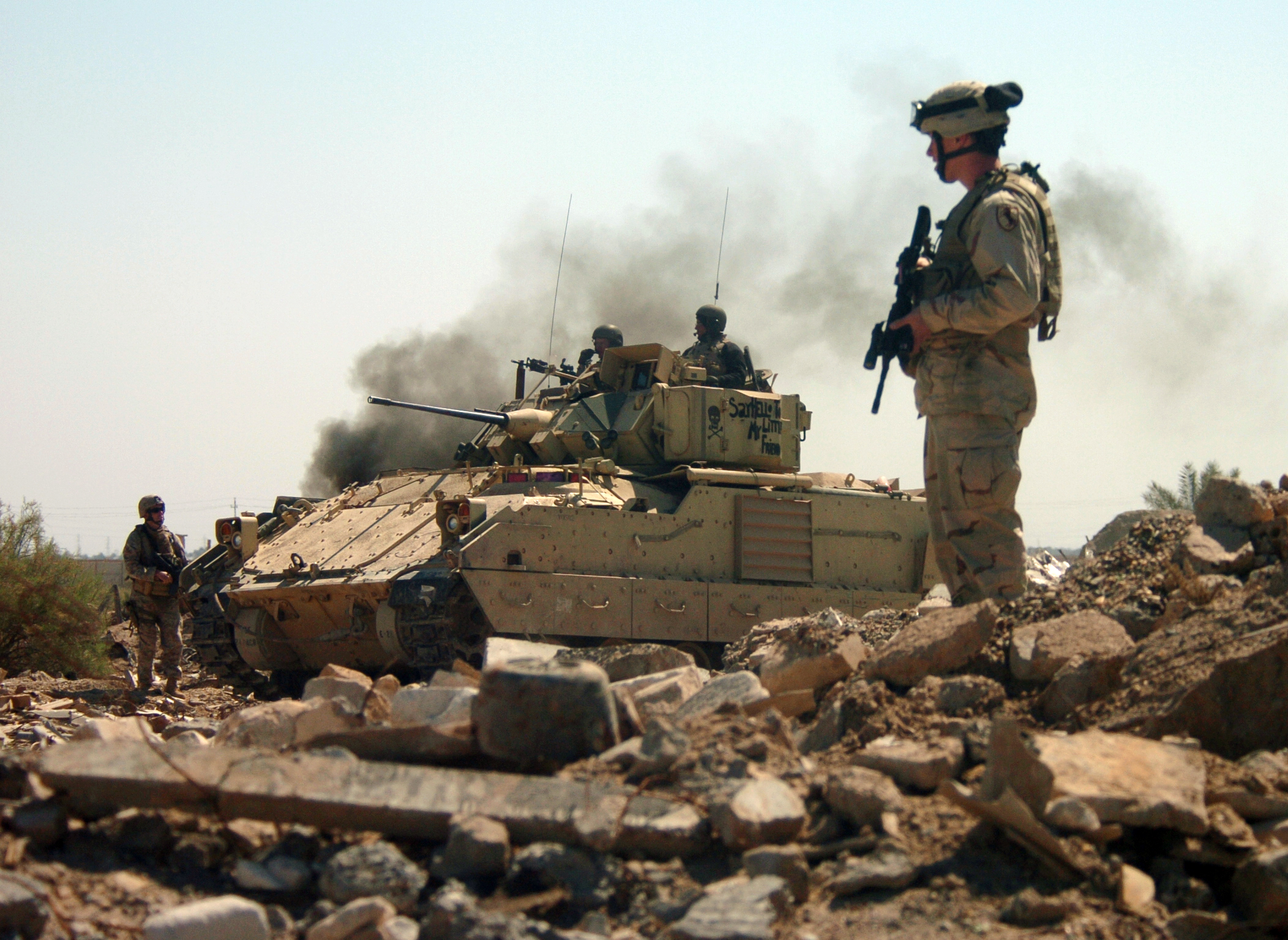 Babil, Iraq (Mar. 26, 2005) – U.S. Army Soldiers assigned to the 2nd/11th Armored Cavalry Regiment (ACR) cautiously advance into a bunker area as they conduct a raid on the Hateen Weapons Complex in Babil, Iraq. The raid was coordinated to disrupt insurgent safe havens and to clear weapons cache sights in the area of operation. The 2nd/11th ACR is attached to the 155 Brigade Combat Team (BCT), headquartered in Tupelo, Mississippi and Active Duty personnel are forward deployed to central Iraq in support of Operation Iraqi Freedom (OIF). U.S. Navy photo by Chief Photographer's Mate Edward Martens (RELEASED)